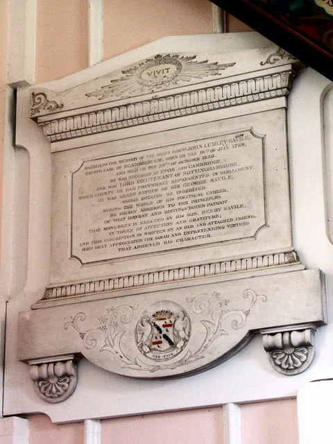 Interior of the Church of St Helen, Saxby Memorial to John Lumley Savile, the 8th Earl of Scarborough, whose remains lie in a family vault beneath the centre of the church.